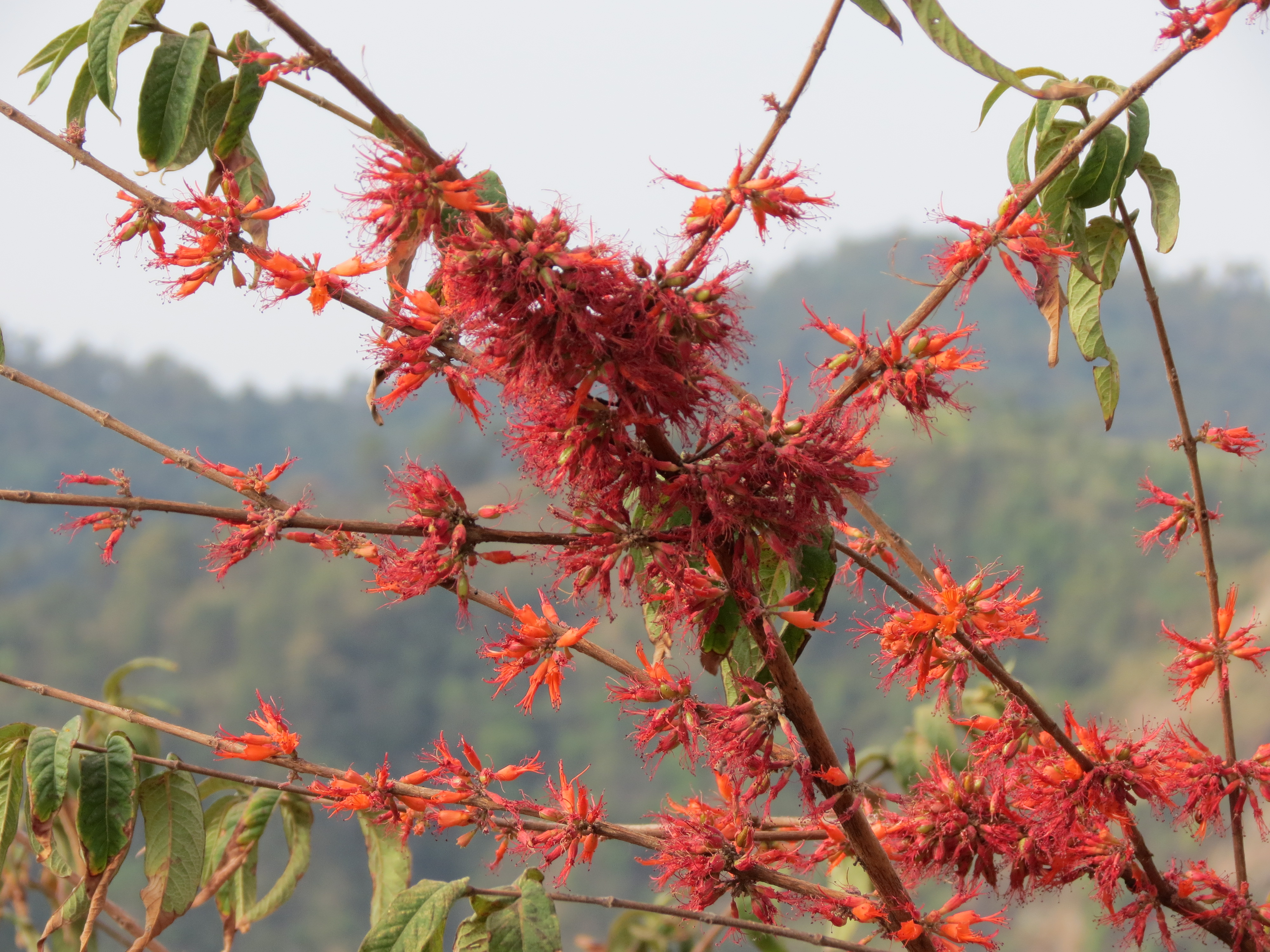 Woodfordia fruiticosa seen near Nainital, Uttarakhand